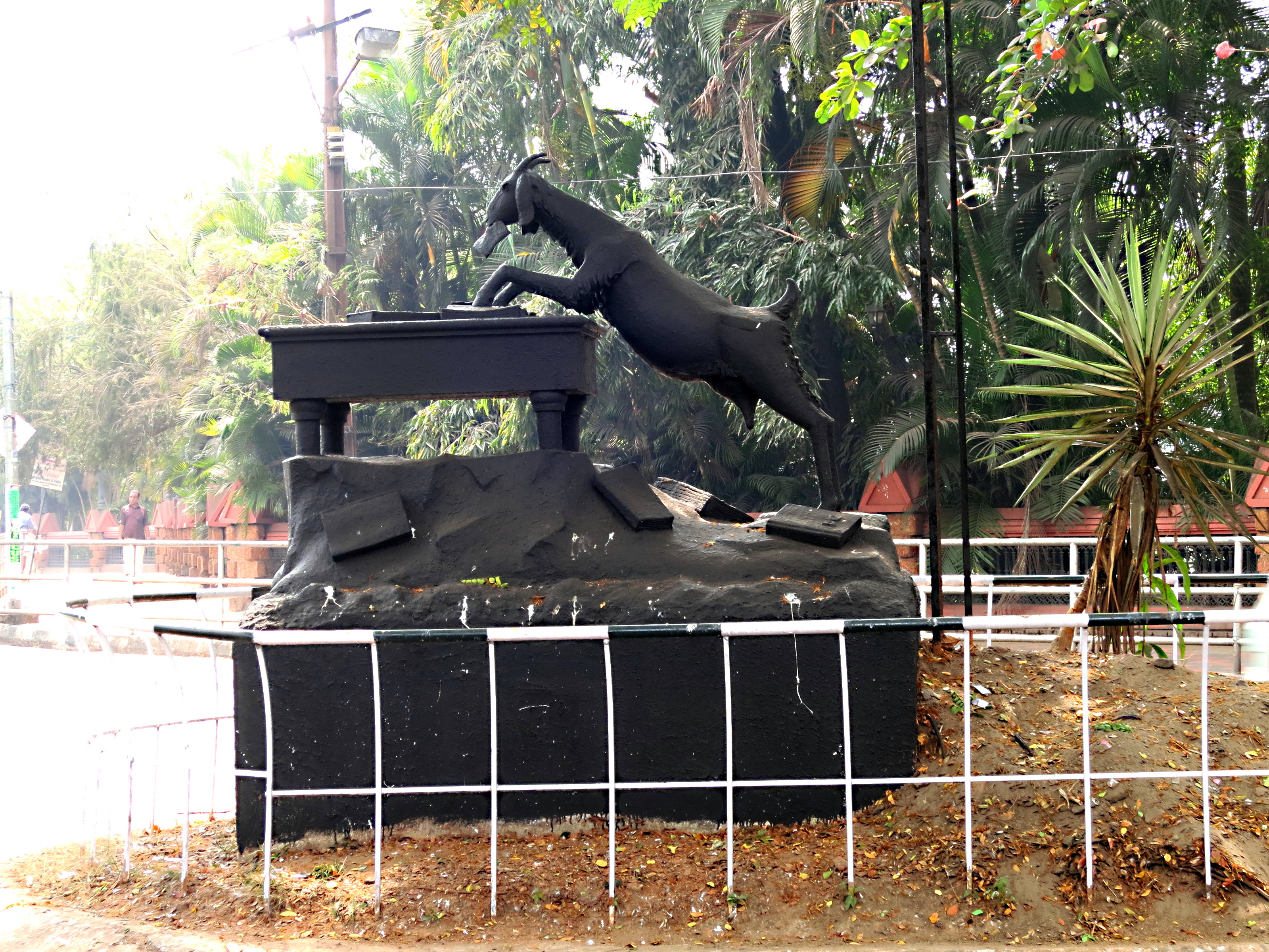 A sculpture of Vaikom Mohammed Basheer's ‘Pathummayude Aadu' at Mananchira,Kozhikode